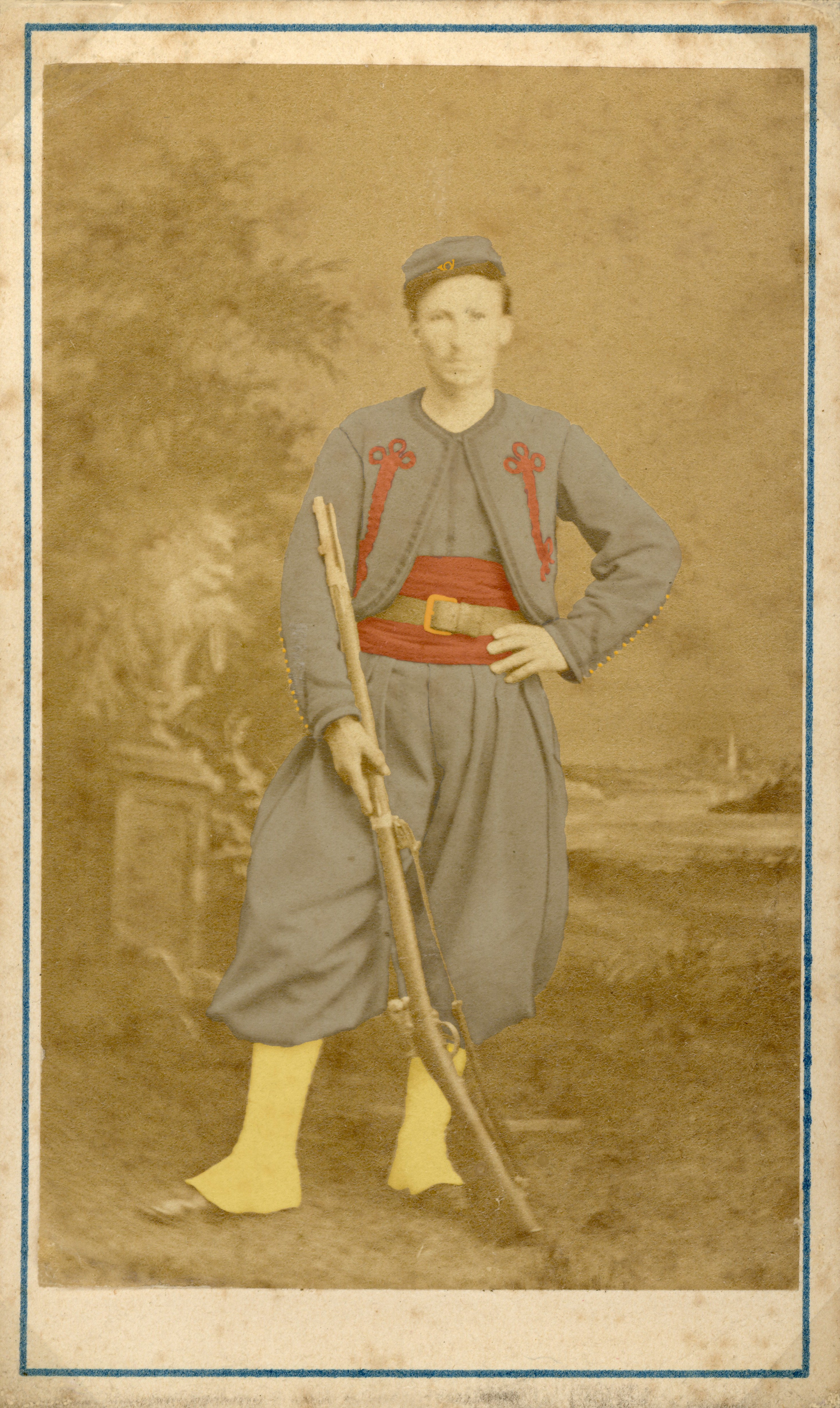 Magloire Roussel as papal zouave, ca 1869